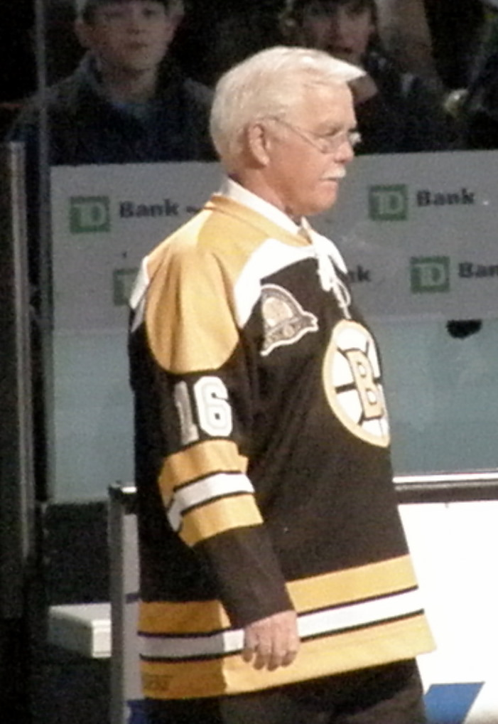 16, Derek Sanderson at the 1970 Boston Bruins 40th reunion Pittsburgh Penguins at (vs) Boston Bruins, TD Banknorth Garden (Boston Garden), March 18, 2010